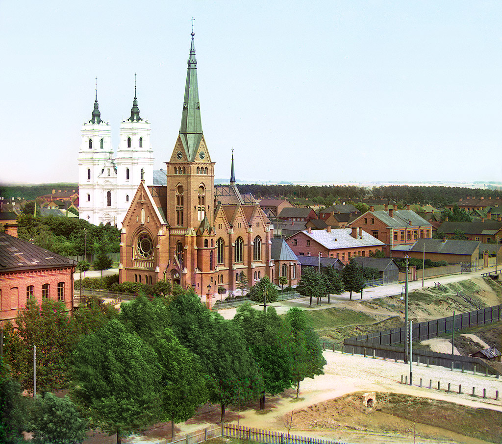 View of Dvinsk (Daugavpils) (Novoye Stroyeniye neighbourhood) in 1912